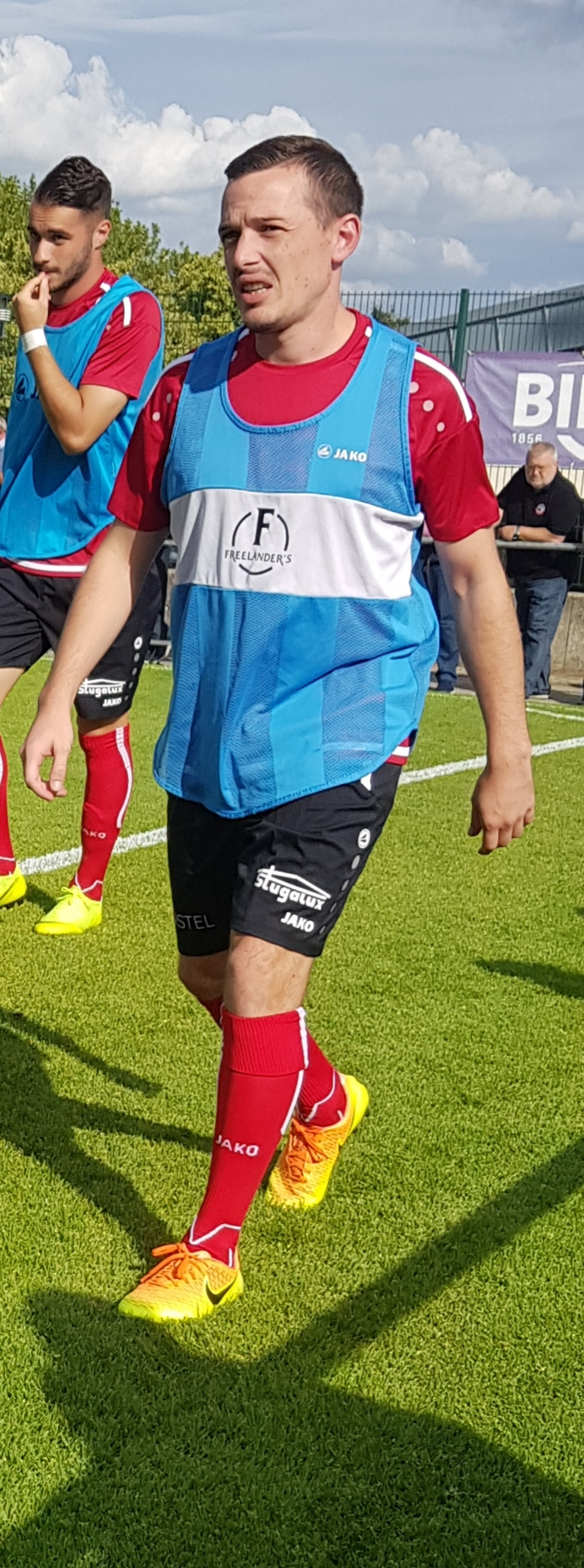 Ben Payal, in the FC UNA Strassen dress, on 1 September 2019